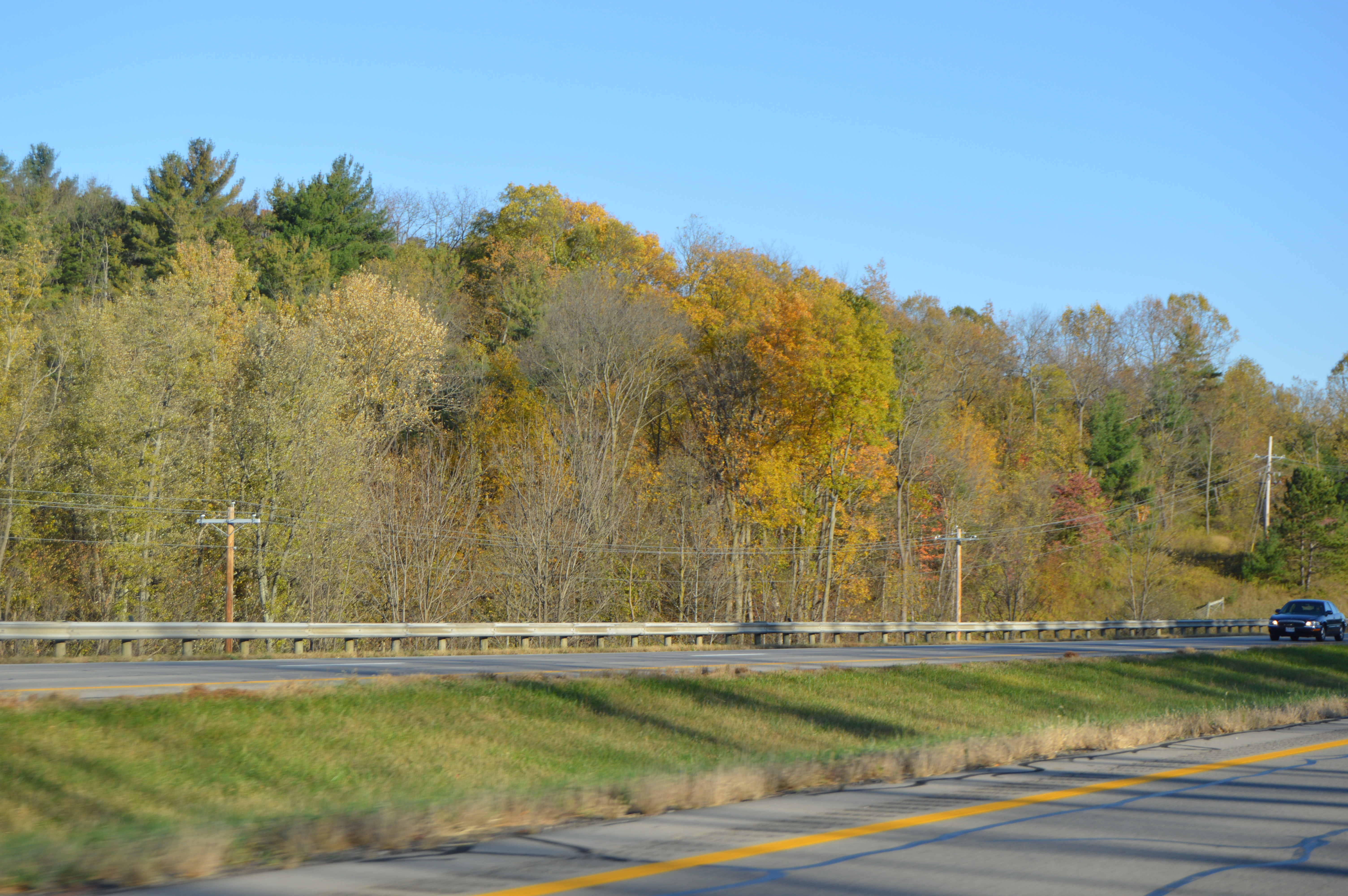 Autumn leaves on the northern side of U.S. Route 30 (seen from the eastbound lanes) approximately three miles east of the Interstate 71 interchange in Mifflin Township, Richland County, Ohio, United States.